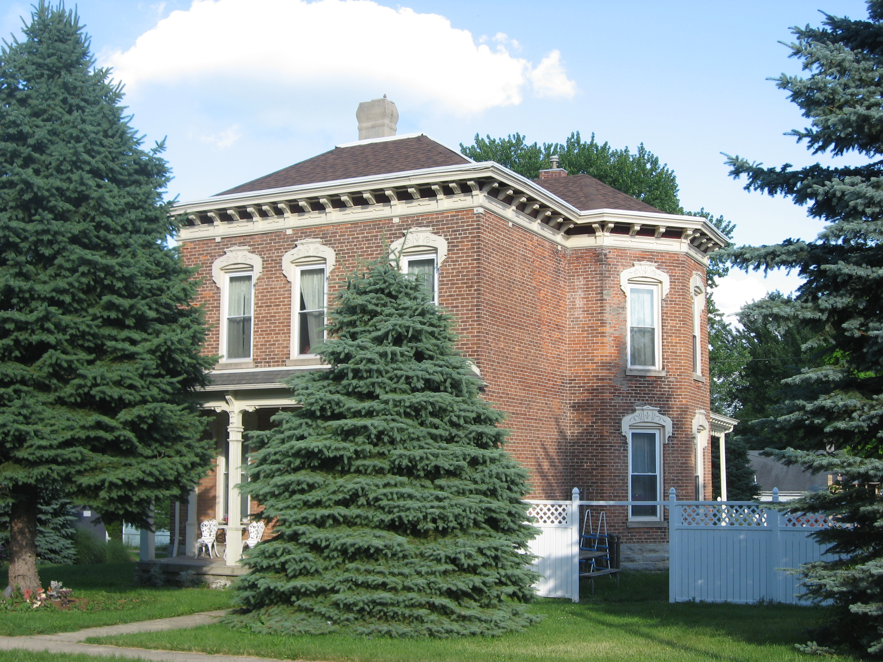 Front and side of the William Culbertson House, located at 103 Race Street in Mechanicsburg, Ohio, United States. Built in 1875, it is listed on the National Register of Historic Places.